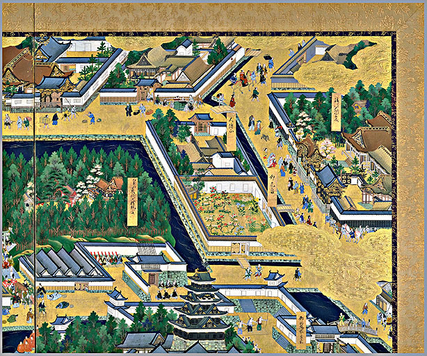 View of Edo, left screen. pair of six-panel folding screens (17th century). TOP OF FIRST PANEL, Left Screen Northern enciente of Edo Castle, Suruga Dainagon residence, Ohanabatake (the shogun's botanical garden for medicine), Momijiyama (Tosho Daigongen Shrine).